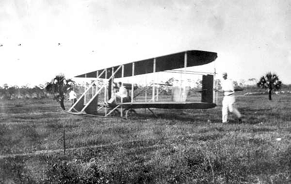 Local call number: Rc13078 Title: [Wright aircraft flown by Howard Gill: Miami, Florida] Publication info: 1911 Physical descrip: 1 photoprint: b&w; 8 x 10 in. Series Title: (Reference collection) General Note: Wright aircraft flown by Howard Gill in celebration of Miami's 15th anniversary. Repository: 500 S. Bronough St., Tallahassee, FL 32399-0250 USA. Contact: 850.245.6700. Persistent URL